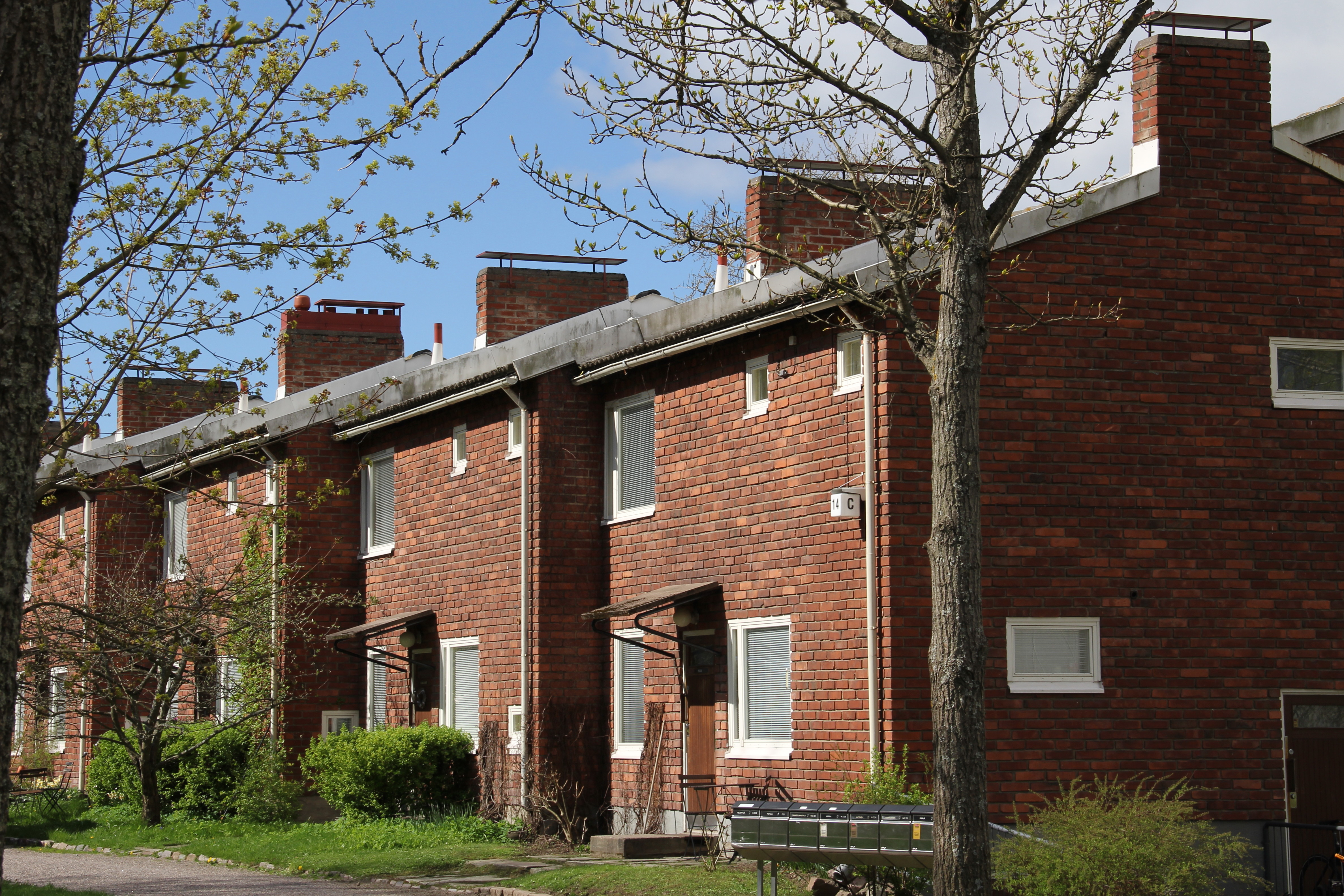 Ekonomitalo Housing Company, Lauttasaari, Helsinki, Finland. - Three terraced houses, completed in 1952, designed by architects Ahti and Esko Korhonen. Original garden design by Nils Orénto in 1953. -The entity comprises two 4-storey apartmant houses and a sauna and laundry building too. -Seen from north.